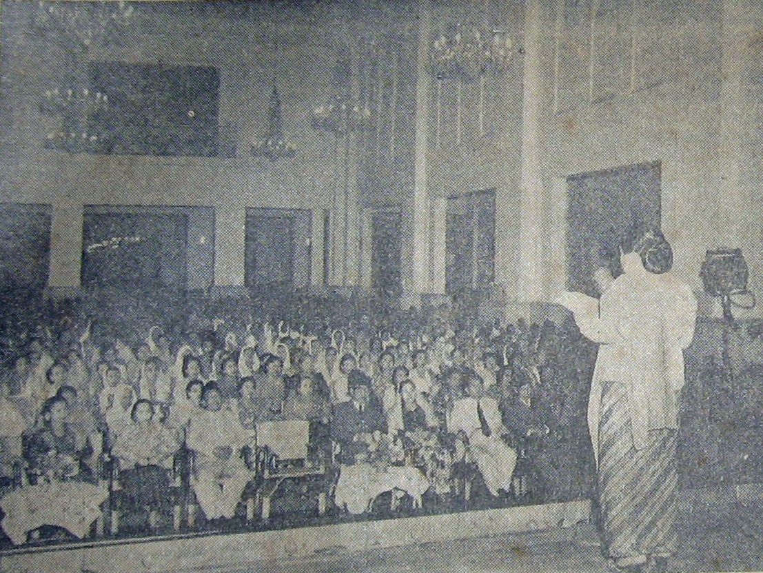 A Pergerakan Wanita Indonesia member speaks at a ceremony commemorating the organisation's founding